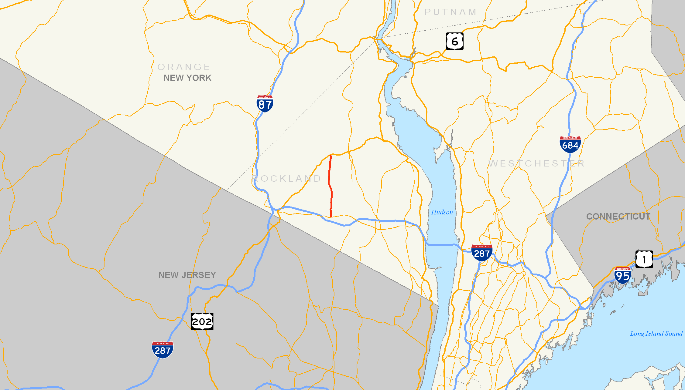 Map of New York SR 306